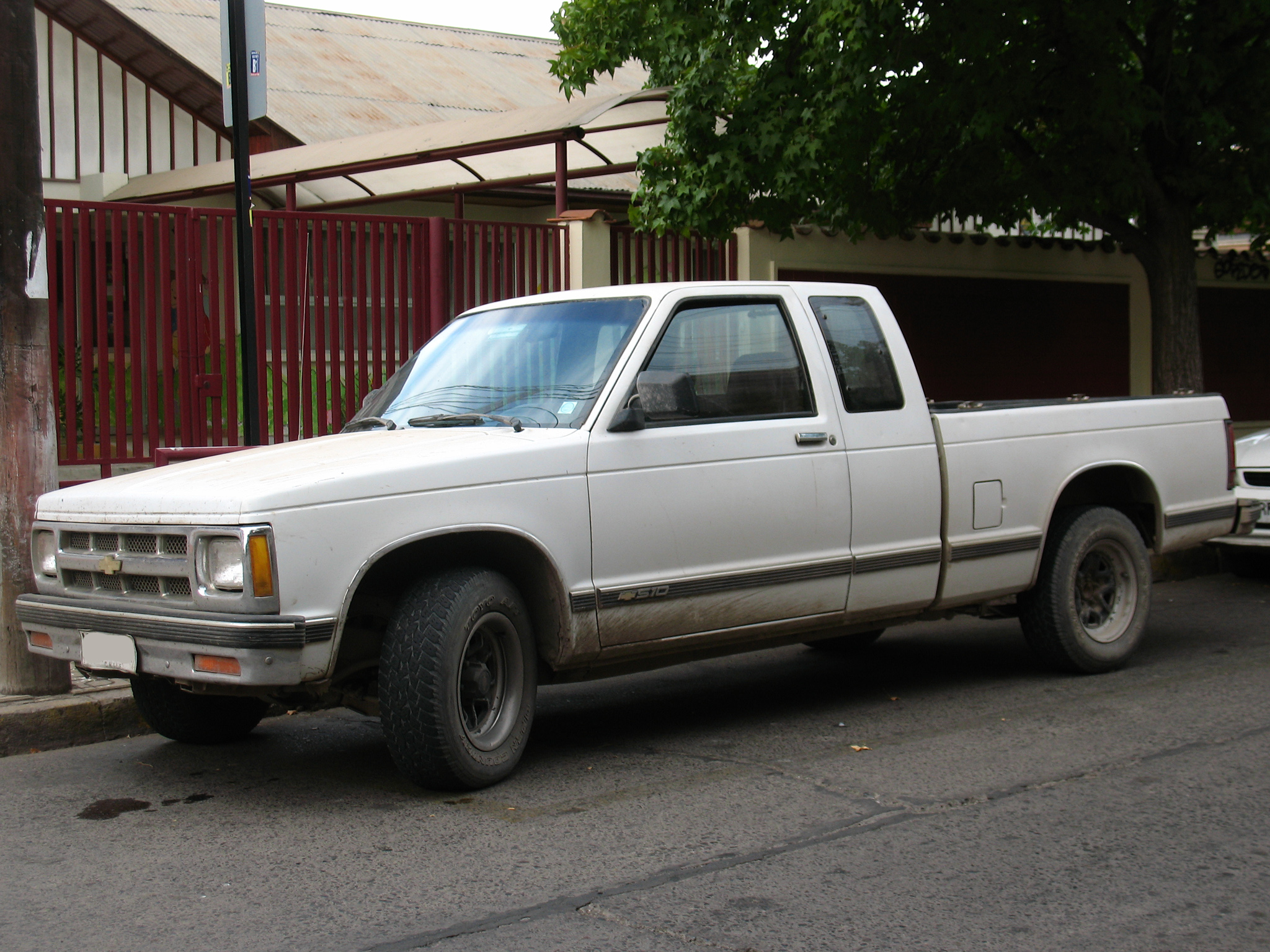 Chevrolet S-10 Maxi Cab 1992